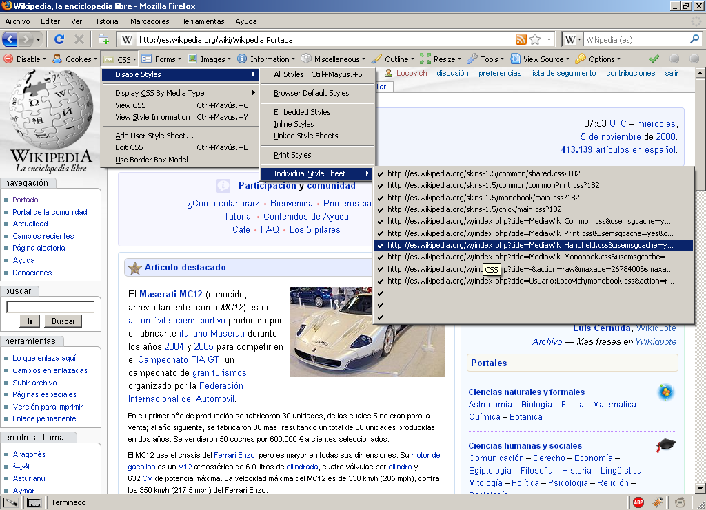 Web Developer installed in Mozilla Firefox 3.0.3 (es-ES)